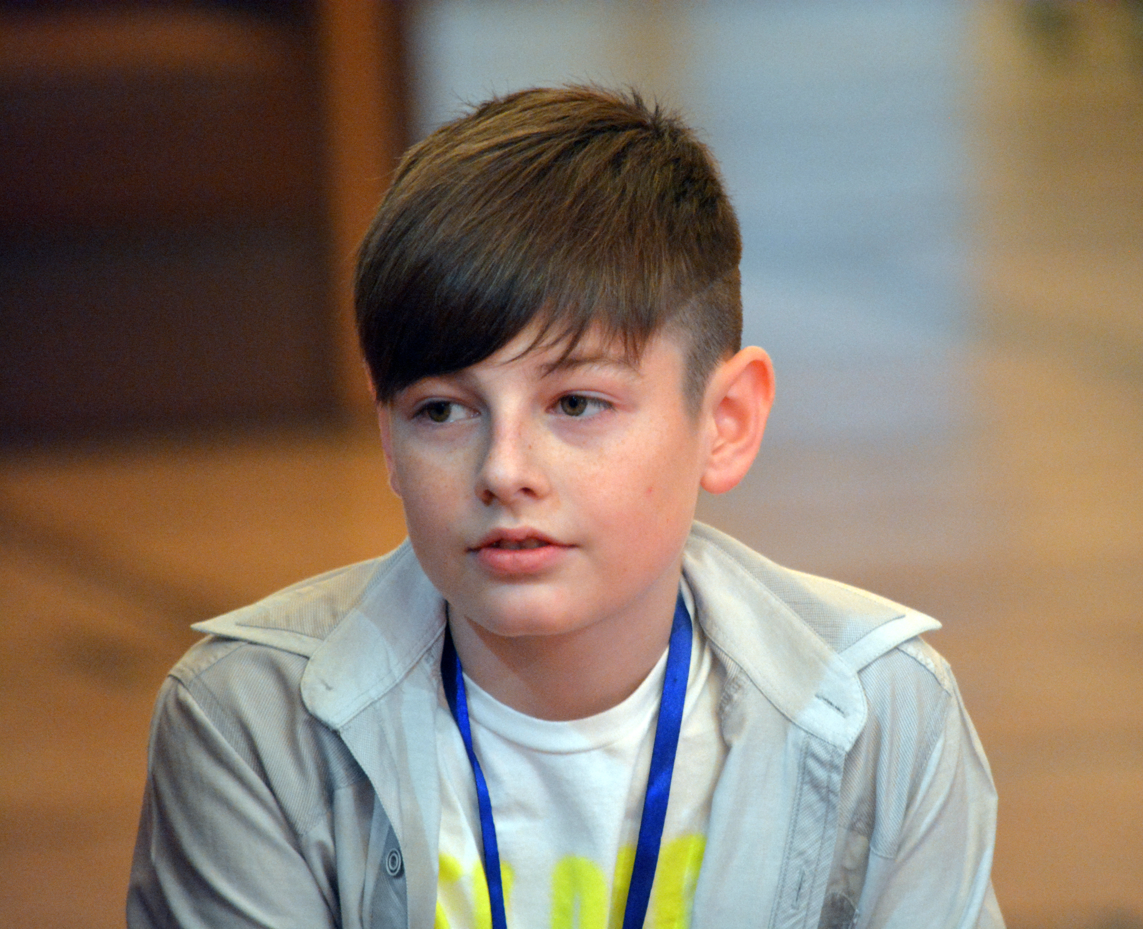 Denis Midone at JESC 2013 (as spokesperson)